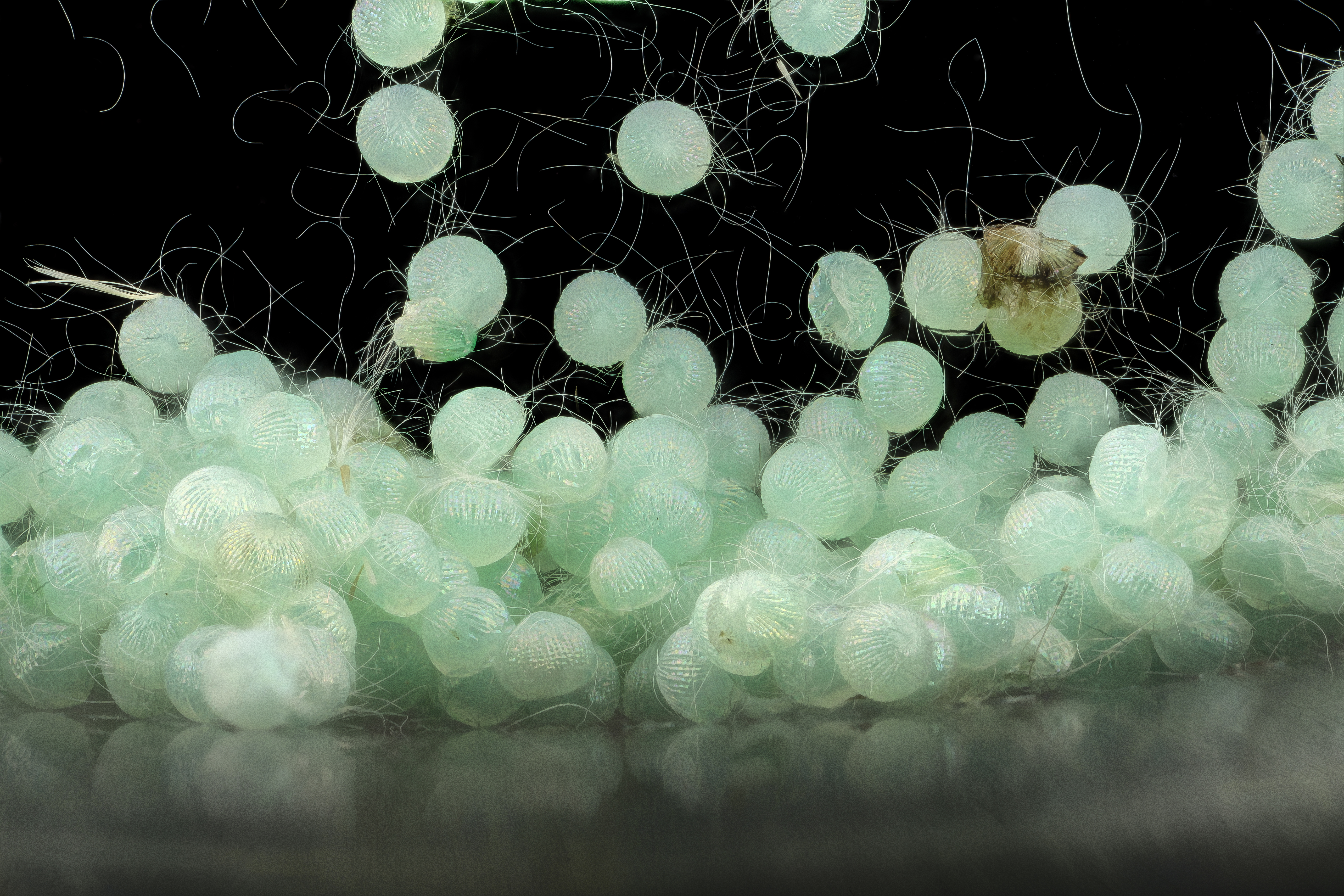 Spodoptera eridania - Southern armyworm. A pest in southern parts of the U.S. mostly Florida. Defoliator of tomatoes and other crops. Not a candidate for the insect Miss Universe contest...or is is? I think close up there is a lot of beauty in this series of life history shots, but that is my personal opinion. Specimens provided by Benzon Research. All photographs are public domain, feel free to download and use as you wish. Photography Information: Canon Mark II 5D, Zerene Stacker, Stackshot Sled, 65mm Canon MP-E 1-5X macro lens, Twin Macro Flash in Styrofoam Cooler, F5.0, ISO 100, Shutter Speed 200 Want some Useful Links to the Techniques We Use? Well now here you go Citizen: Basic USGSBIML set up: USGSBIML Photoshopping Technique: Note that we now have added using the burn tool at 50% opacity set to shadows to clean up the halos that bleed into the black background from "hot" color sections of the picture. PDF of Basic USGSBIML Photography Set Up: ftp://ftpext.usgs.gov/pub/er/md/laurel/Droege/How%20to%20Take%20MacroPhotographs%20of%20Insects%20BIML%20Lab2.pdf Google Hangout Demonstration of Techniques: or Excellent Technical Form on Stacking: Contact information: Sam Droege 301 497 5840